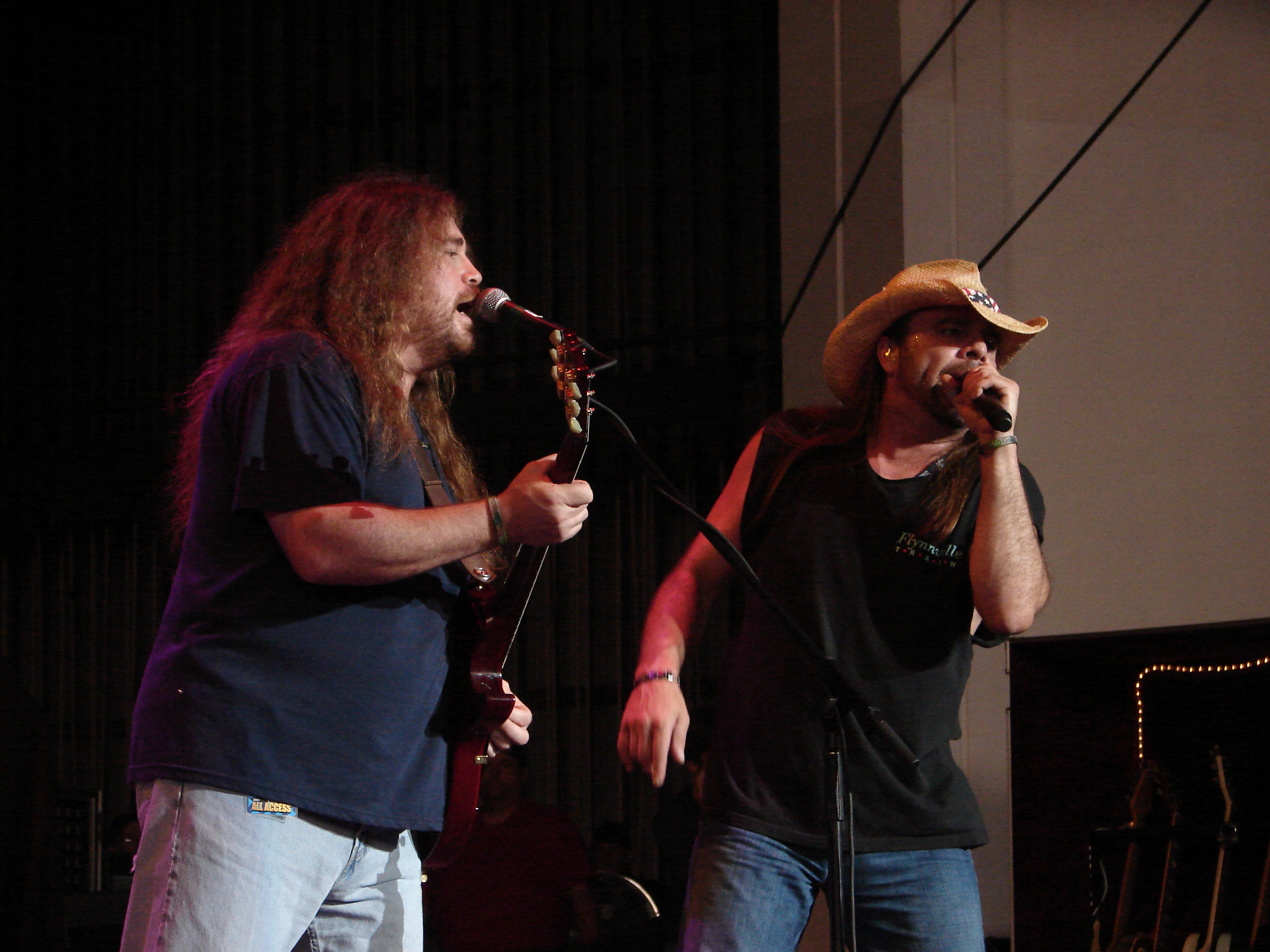 Two Flynnville Train members (left to right) Brent Flynn and Brian Flynn performing at the PNC Bank Arts Center in Holmdel, NJ.